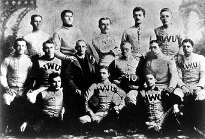 Source: NU150 - Photo Gallery - Athletics, 1890